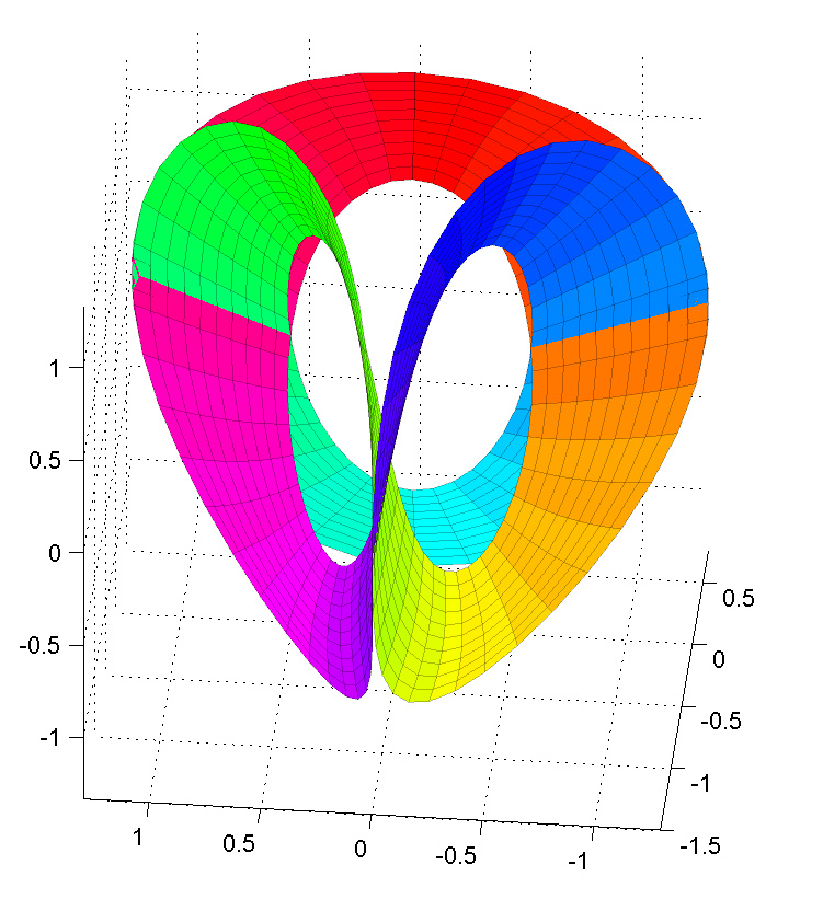 Graph of part of Bour's surface, with parameters r in [0.5,1] and theta in [0,4pi]. The surface is coloured by theta, making the self-crossings evident.